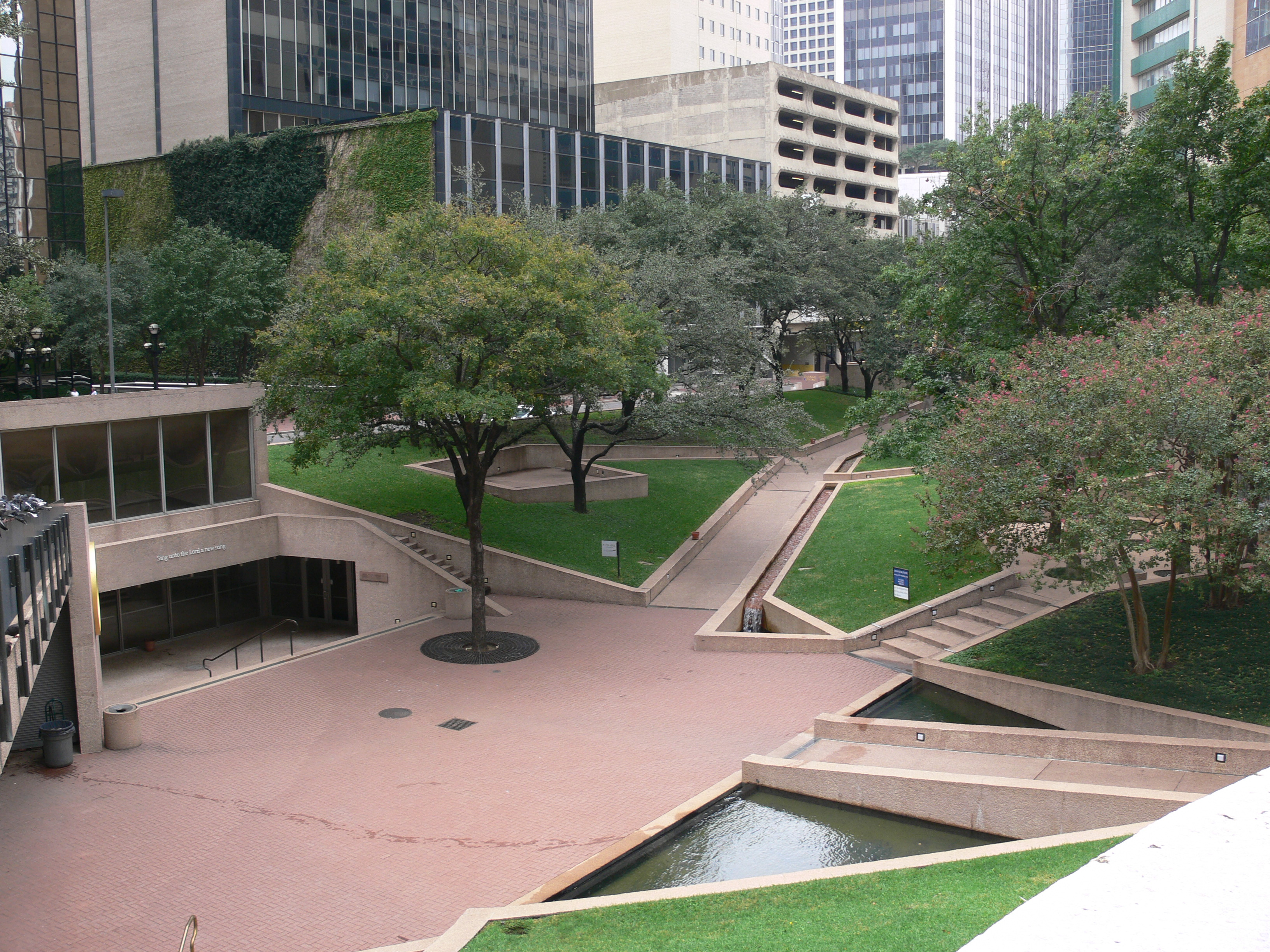 Thanks-Giving Square in Downtown Dallas, Texas